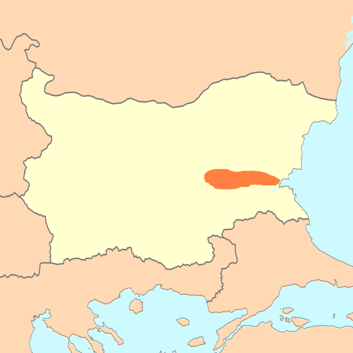 Local Karnobat Sheep area of distribution